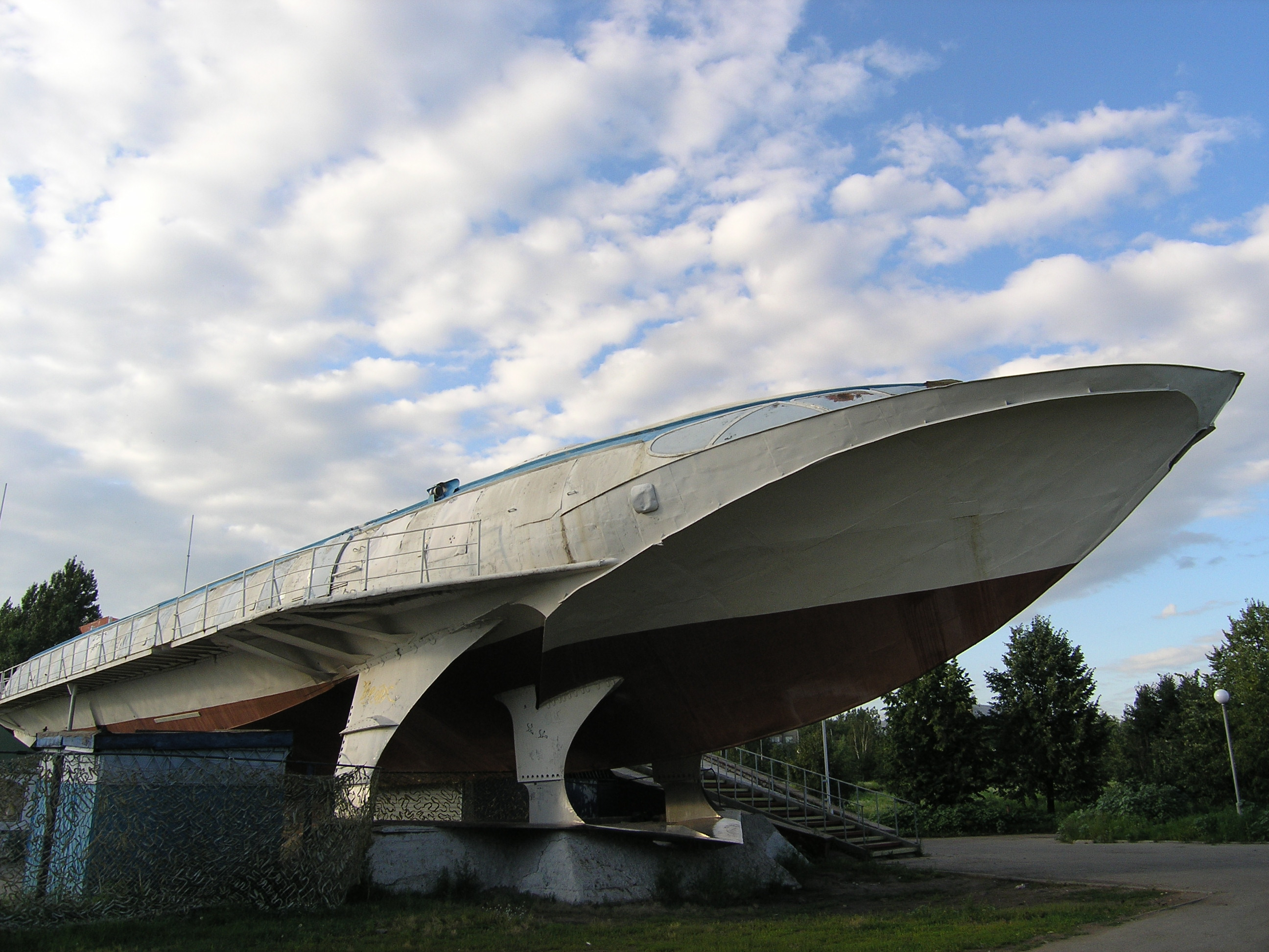 Sputnik, river ship, Togliatti, Russia